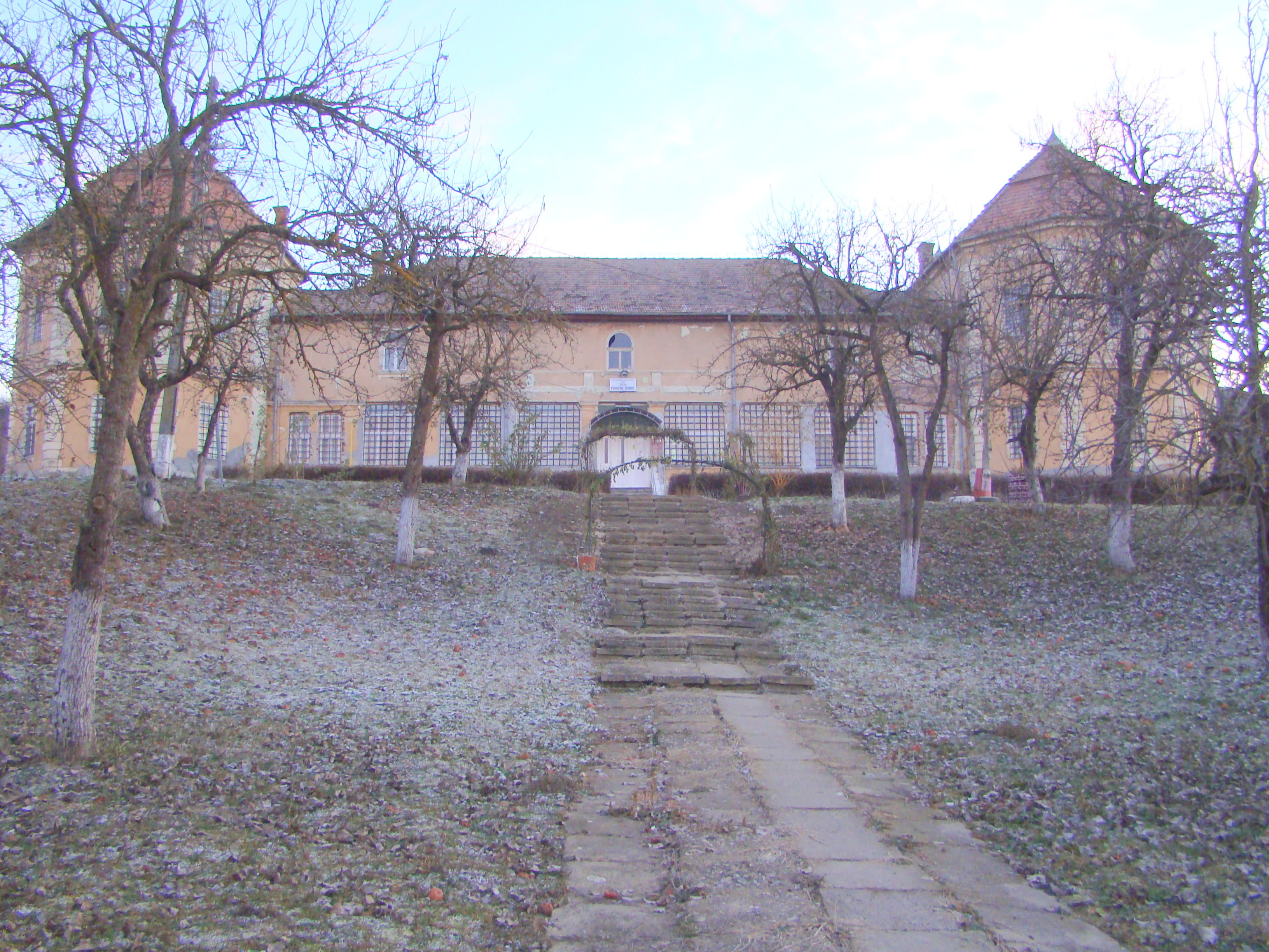 Bánffy Castle in Gheja, Mureș county, Romania